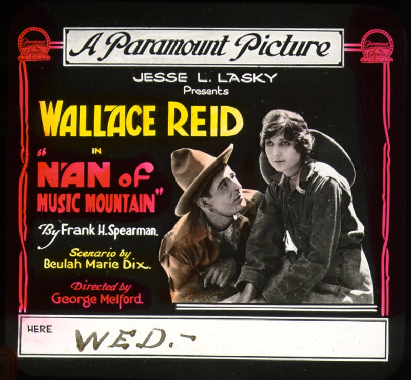 'Nan of Music Mountain is a 1917 American drama film directed by George Melford and Cecil B. DeMille. This is a lantern slide with Wallace Reid and Ann Little. This was originally published in 1917, thus public domain.